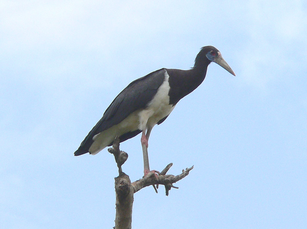 Ciconia abdimii - Abdim's stork photographed near Gaya, Niger.